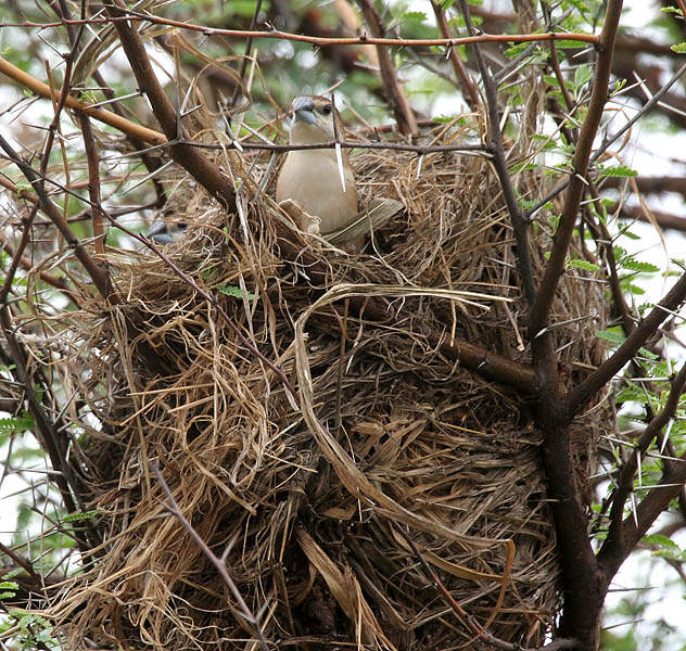 Indian Silverbill or White-throated Munia Lonchura malabarica - Hindi: Charchara, Charga, Charakka, Pidda, Pun: Chittgali munia, Ben: Piduri, Sar munia, Guj: Pavai munia, Munia, Tapushiyu, Sweth kanth tapushiyu, Mar: Malmunia, Ta: Nellu-kuruvi, Te: Jinuwayi, Mal: Vayalatta, Kan: Bili kantada munia, Sinh: Wee-kurulla- at Pocharam lake, Andhra Pradesh, India.